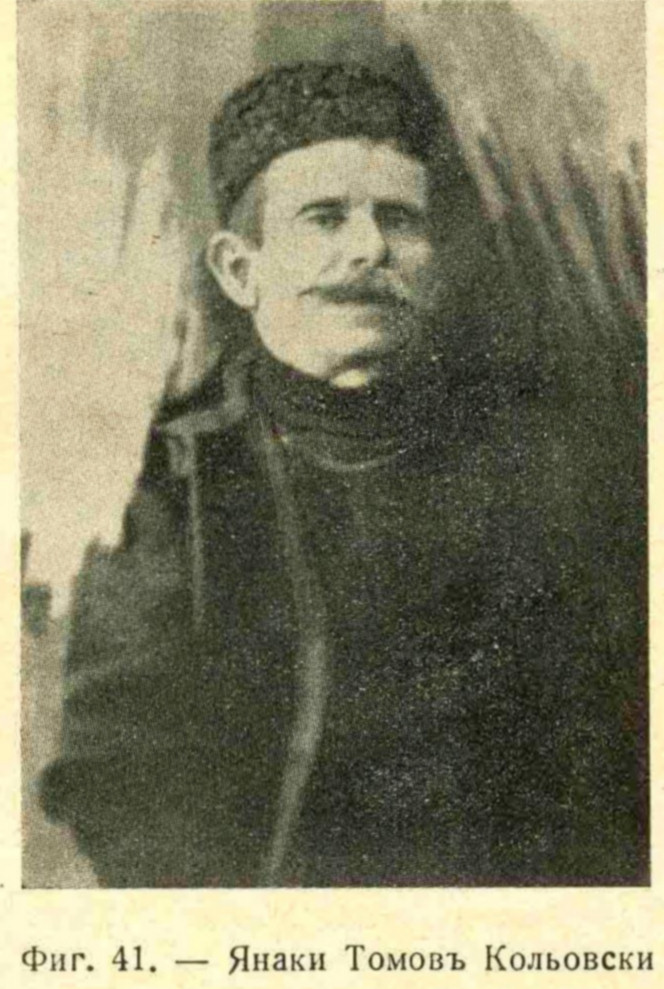 Yanaki Tomov